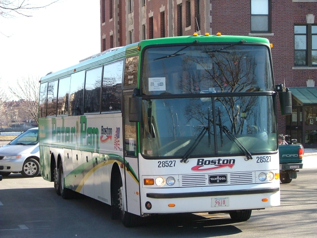 MIT-Wellesley Senate Bus Taken 05 March 2006 by Isopropyl